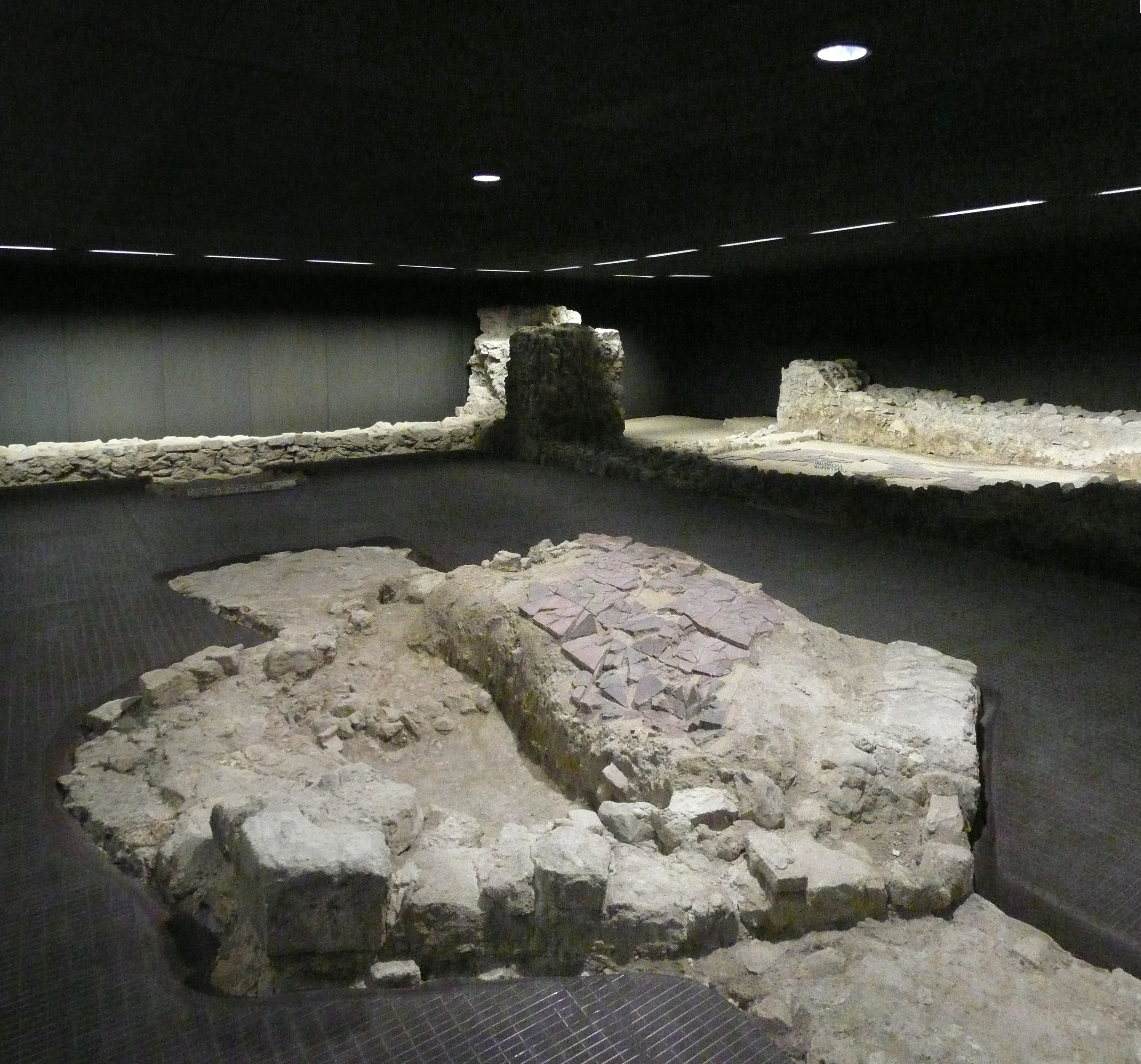 Remains of Vienna's oldest synagogue. The synagogue was the spritiual centre of Jewish scholarship which extended over the continent of Europea and enjoyed one of its heydays here in Vienna. The destruction of the synagogue in 1421, motivated by hatred and misconceptions, marked the end of Vienna's first Jewish community. This site now serves as a memorial to the victims of the Vienna Gesera.